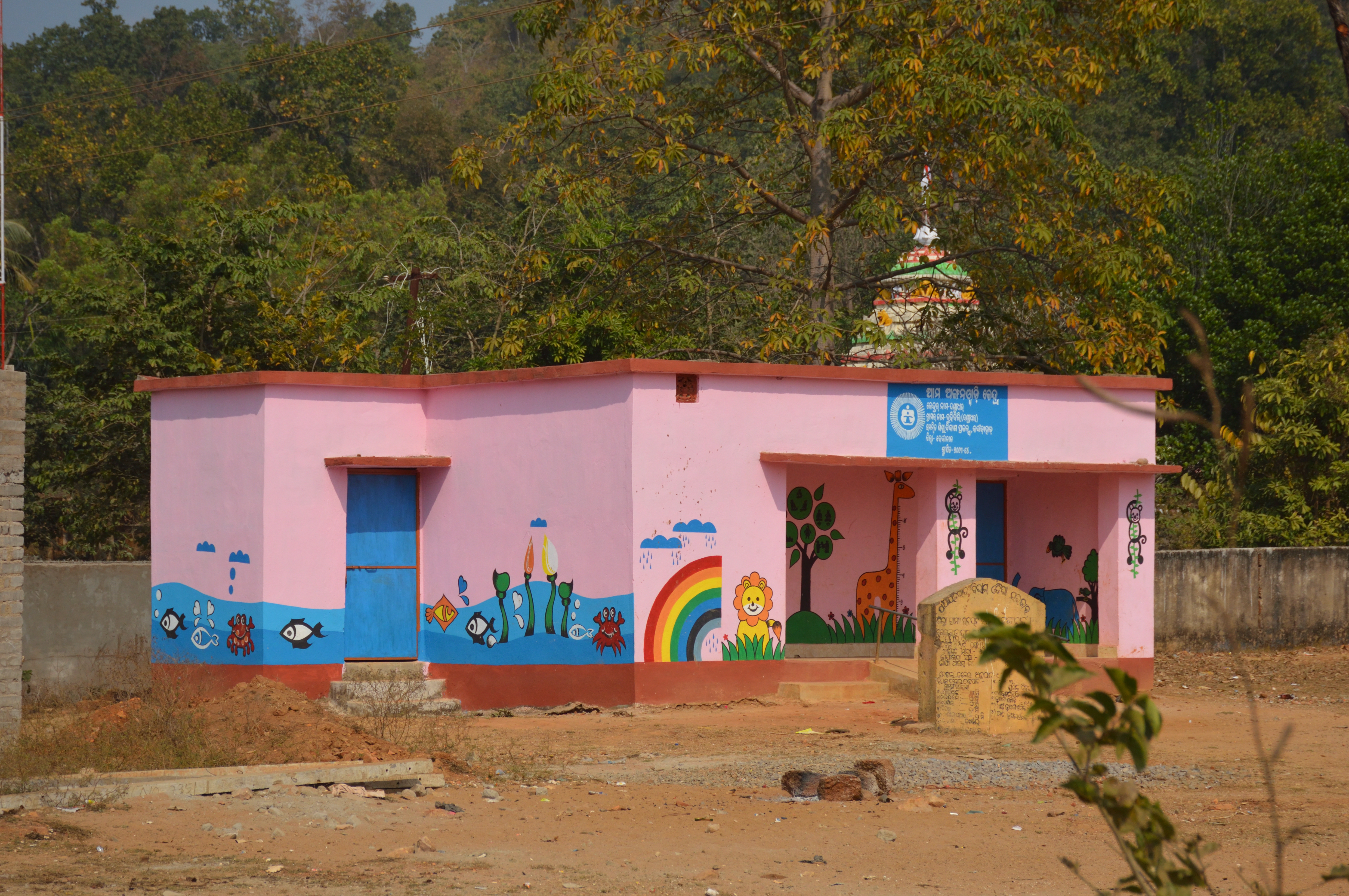 Photographed in Odisha.